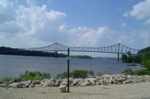 This is the Mississippi River bridge between Savanna, Illinois and Sabula, Iowa.